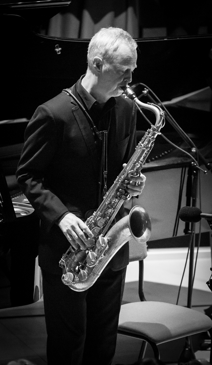 Tore Brunborg performs with Tord Gustavsen and Oslo Domkor in Oslo Cathedral. The concert was part of the Oslo Jazz Festival in Norway and took place on 18. August 2016. Lineup:Tord Gustavsen (piano)Tore Brunborg (saxophone)Oslo Domkor (choir)Vivianne Sydnes (conductor)